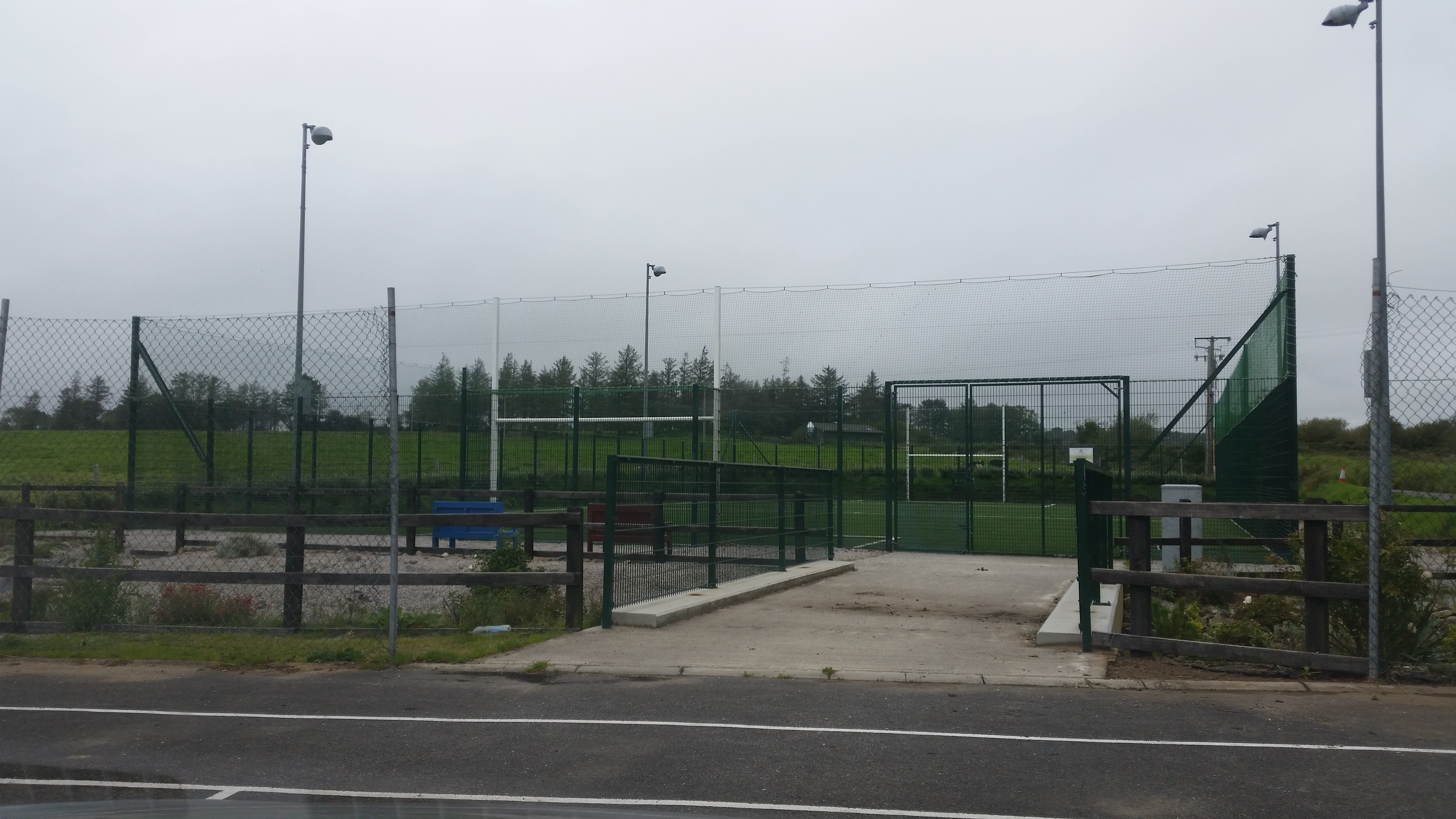 An Páirc Uile Aimsire, An Sean Phobal